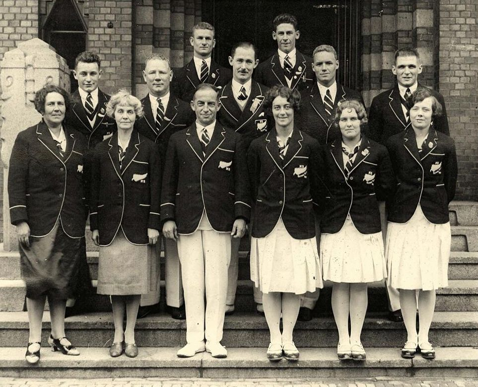 The full New Zealand team at the 1928 Summer Olympics.